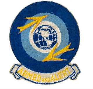 Emblem of the 372d Bombardment Squadron